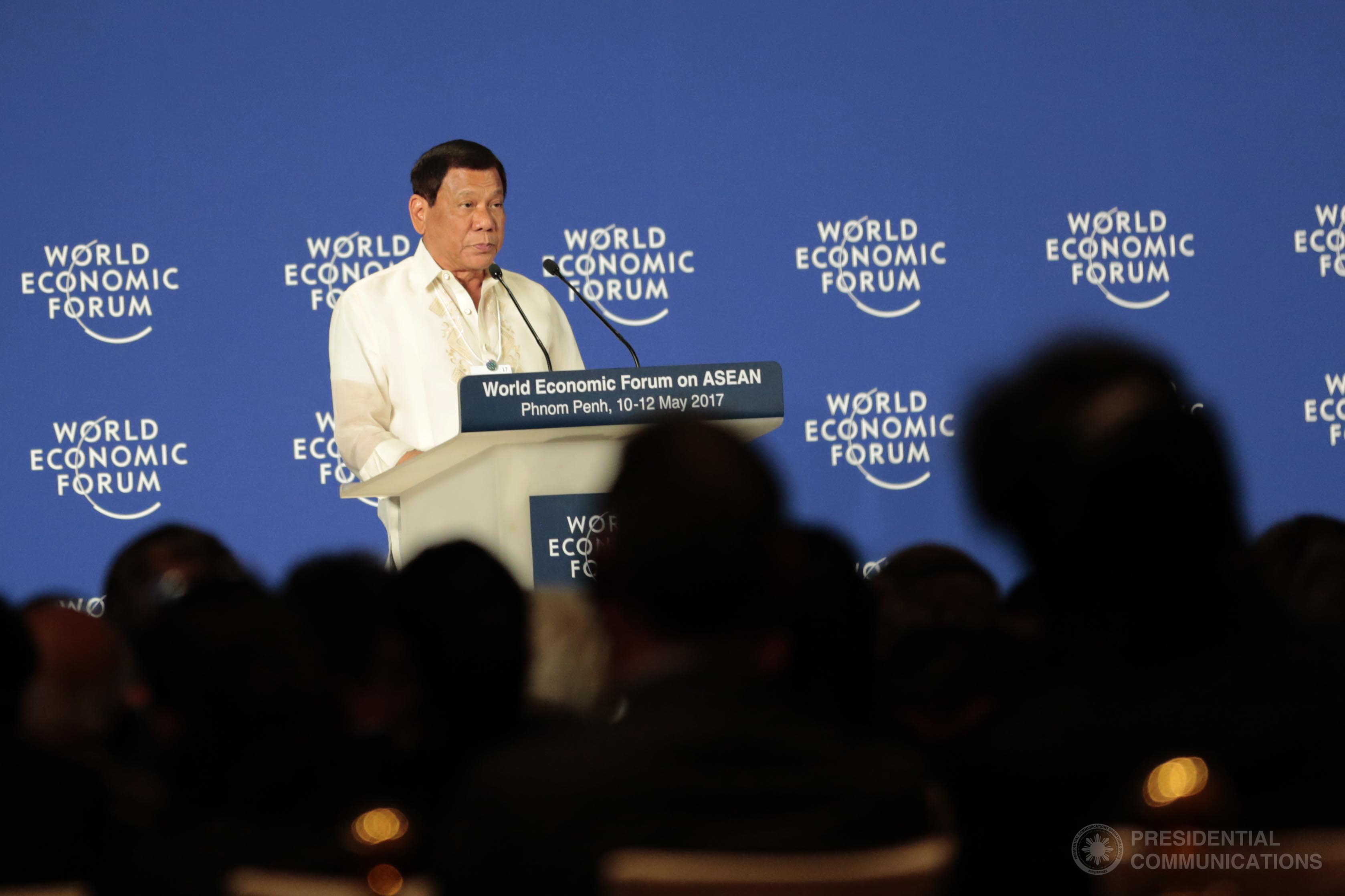 Philippine President Rodrigo Duterte speaking at the World Economic Forum in Phnom Penh, Cambodia on May 11, 2017.